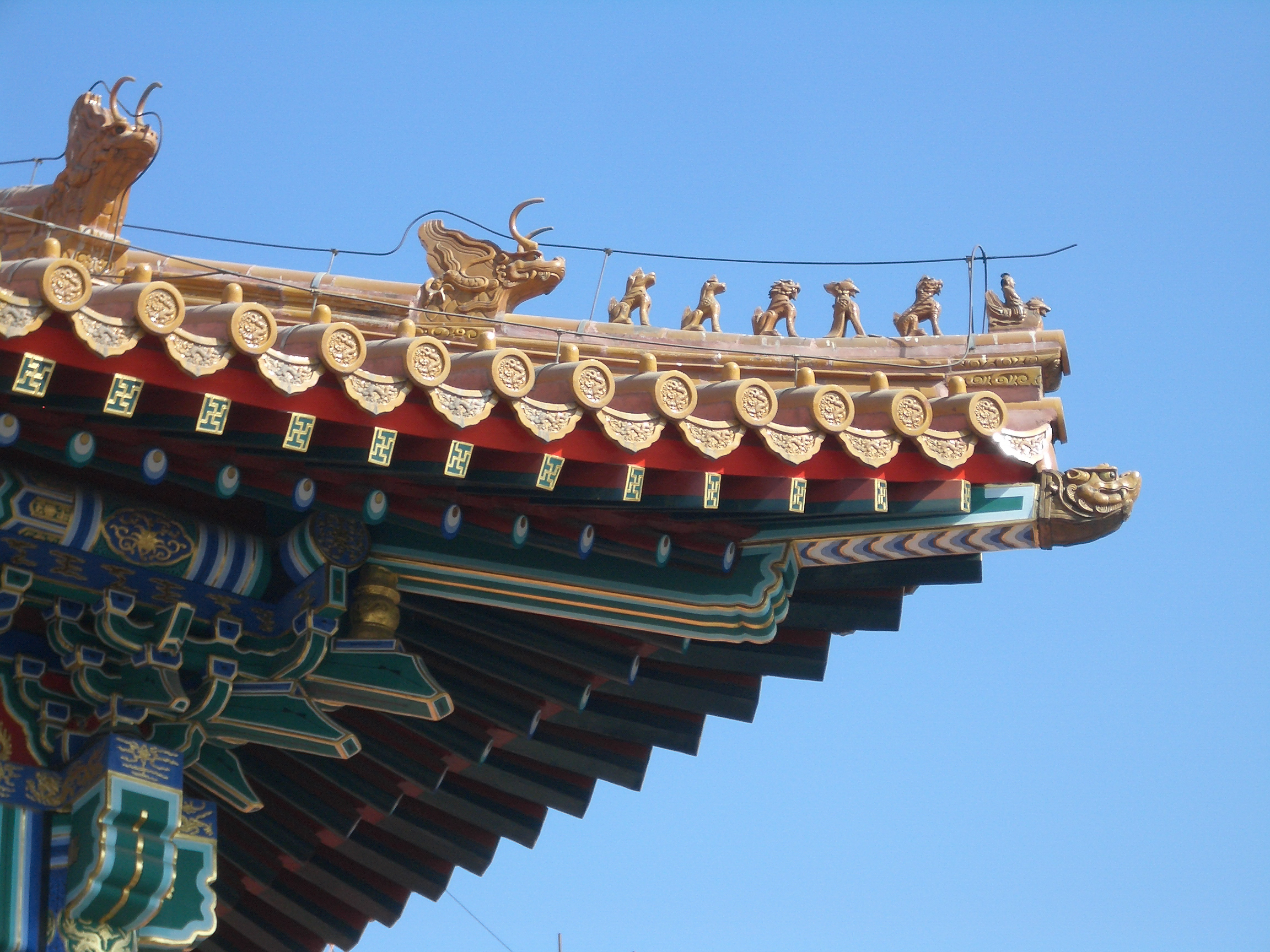 Forbidden City, Beijing, China